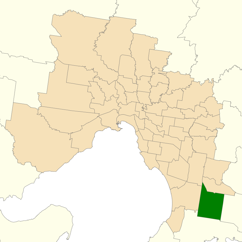 Location of the Victorian electoral district of Cranbourne (dark green) in the Greater Melbourne area.